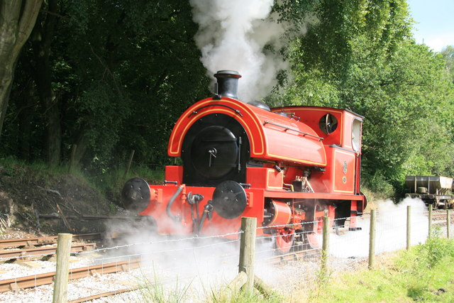 Foxfield Railway - Bagnall No. 2 transferring between trains. This is at Dilhorne Park Station during the Summer Steam Gala. The locomotive has just hauled a passenger train from Caverswall Road and has now changed tracks to take a freight on to Foxfield Colliery. Bellerophon, built 1874 by the Haydock Foundry, had brought the freight up the infamous bank and was to take the passengers back to Caverswall Road.